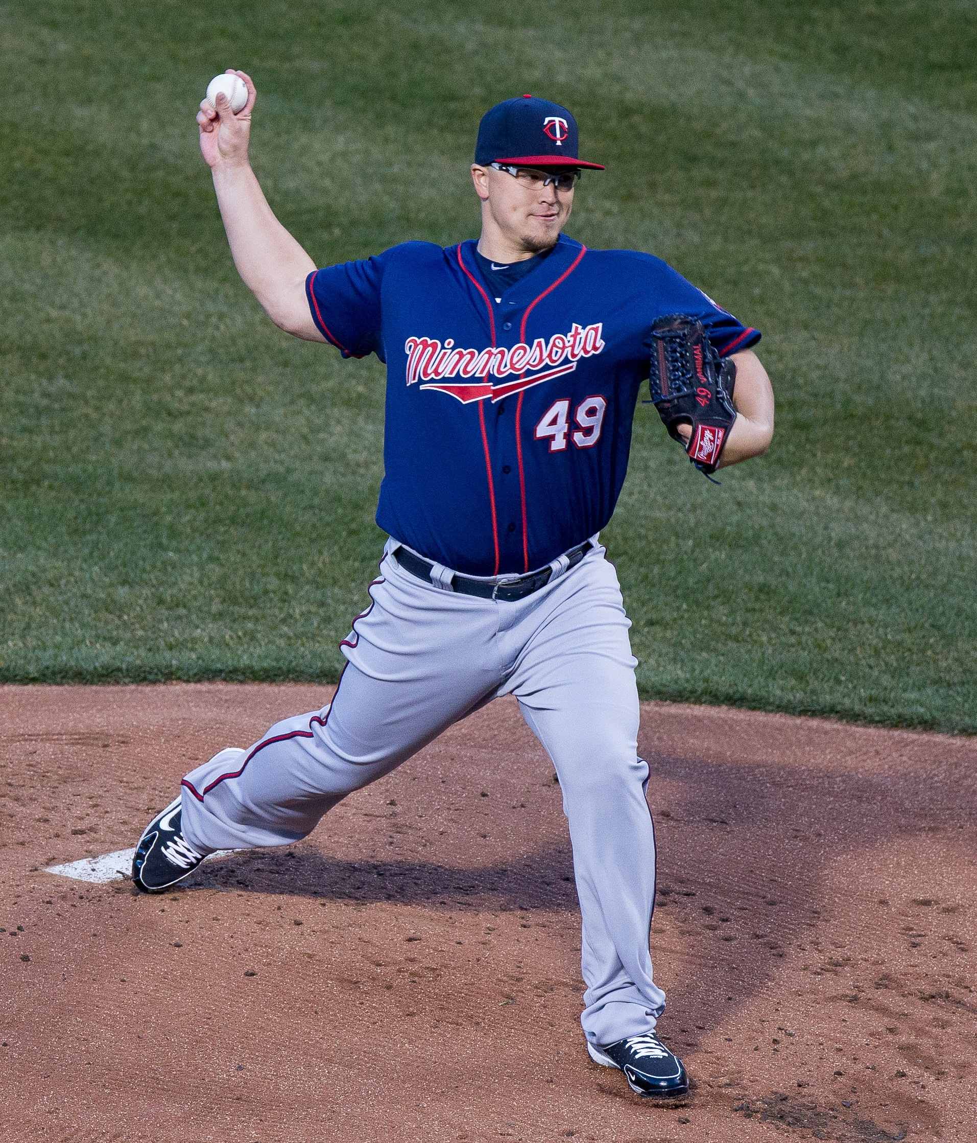 Minnesota Twins pitcher Vance Worley – Minnesota Twins at Baltimore Orioles April 6, 2013